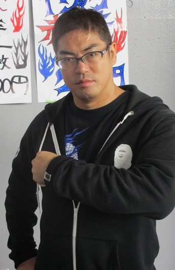 Japanese professional wrestler,Ryuji Ito. Nov 7 2015, BJW Kanazawa-Bunko(Yokohama).